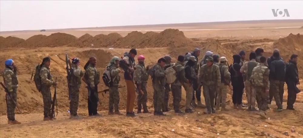 Fighters of the Deir Ezzor Military Council, filmed with their leader Abu Khawla by VOA after capturing an ISIL chemical weapons factory in the Deir ez-Zor Governorate on 9 March 2017.